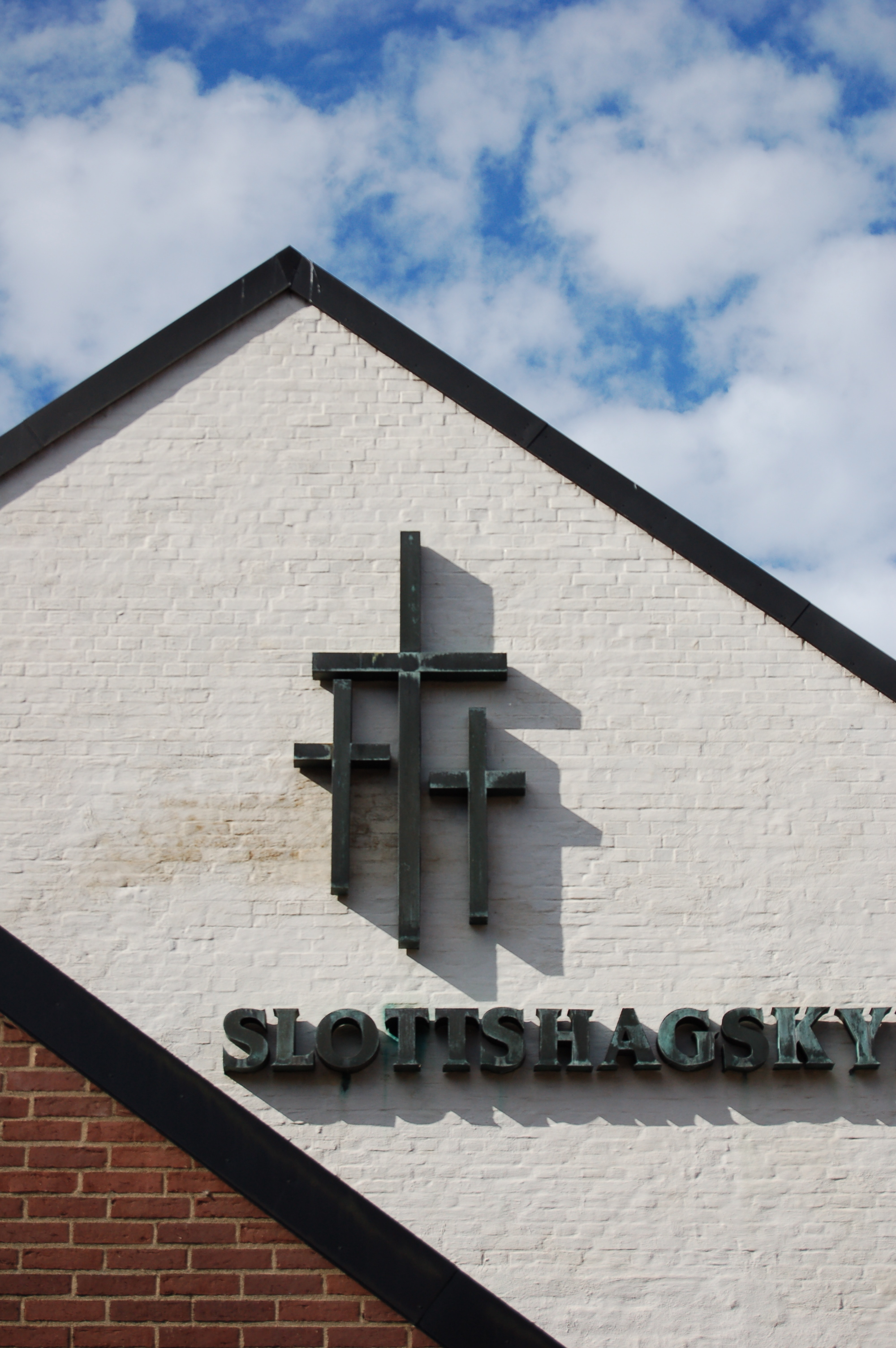 Slottshagskyrkan in Helsingborg